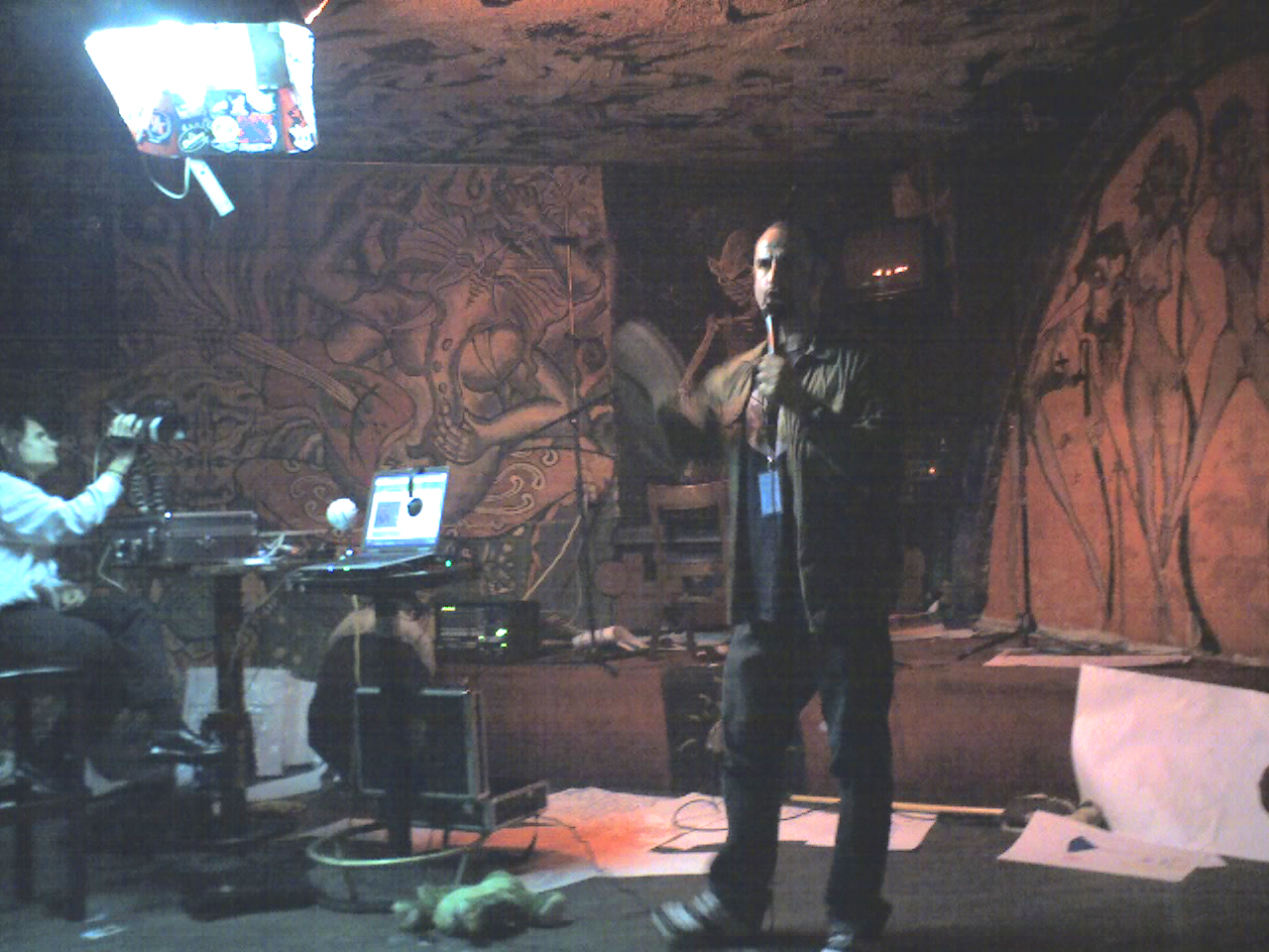 Brody Stevens performs an unscripted, improvised routine at the Double Down club in Las Vegas. Note Garage Comedy's "TV station in a box" on barstool. The configuration allows for a live webcast to be established at a moments notice at any location.